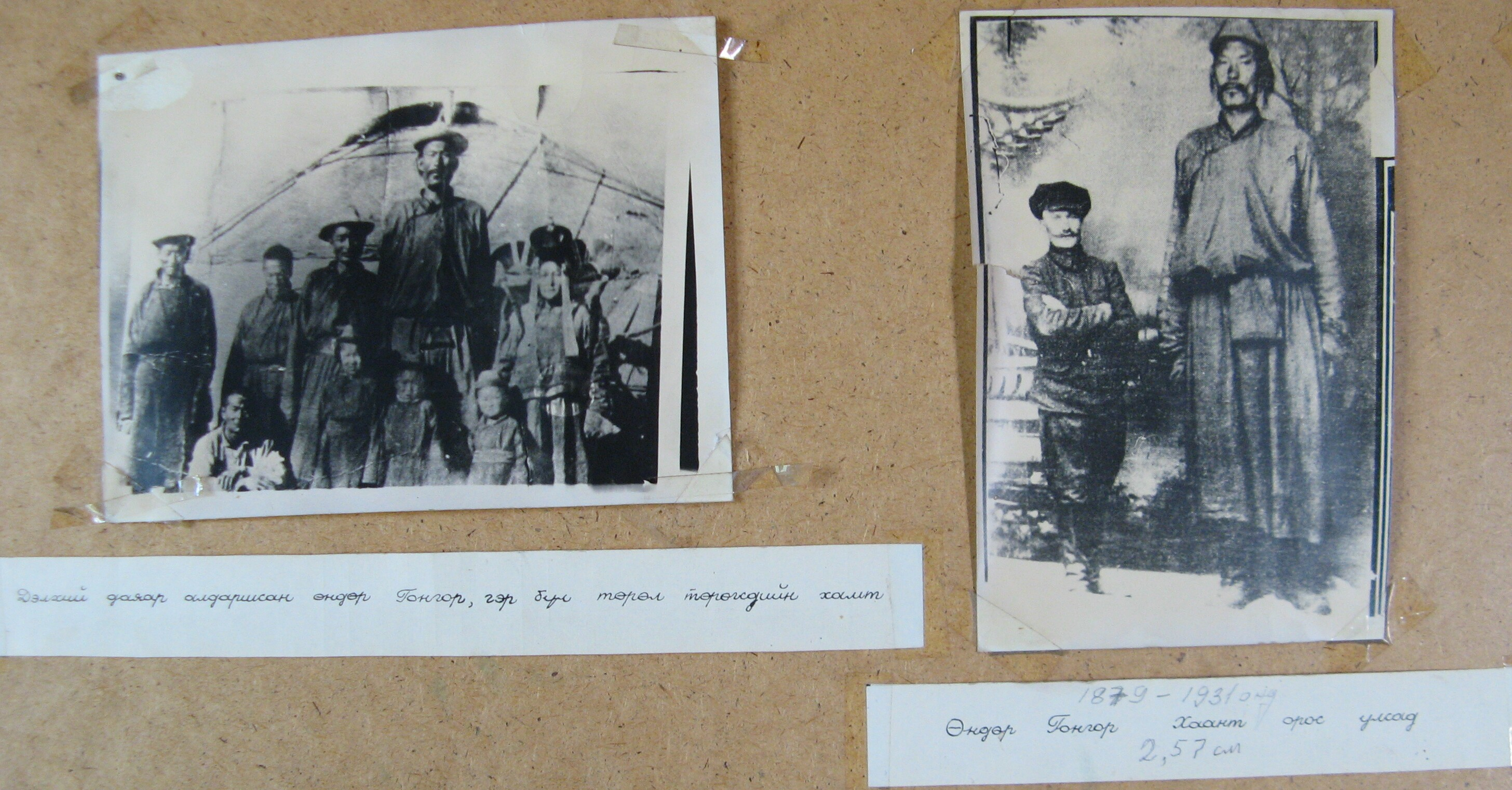 Öndör Gongor photos at the Jargalant Museum (Khövsgöl Province)